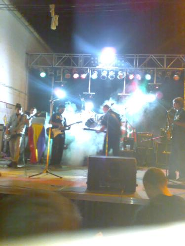 Concierto de Sense Poure en Cheste (Valencia)